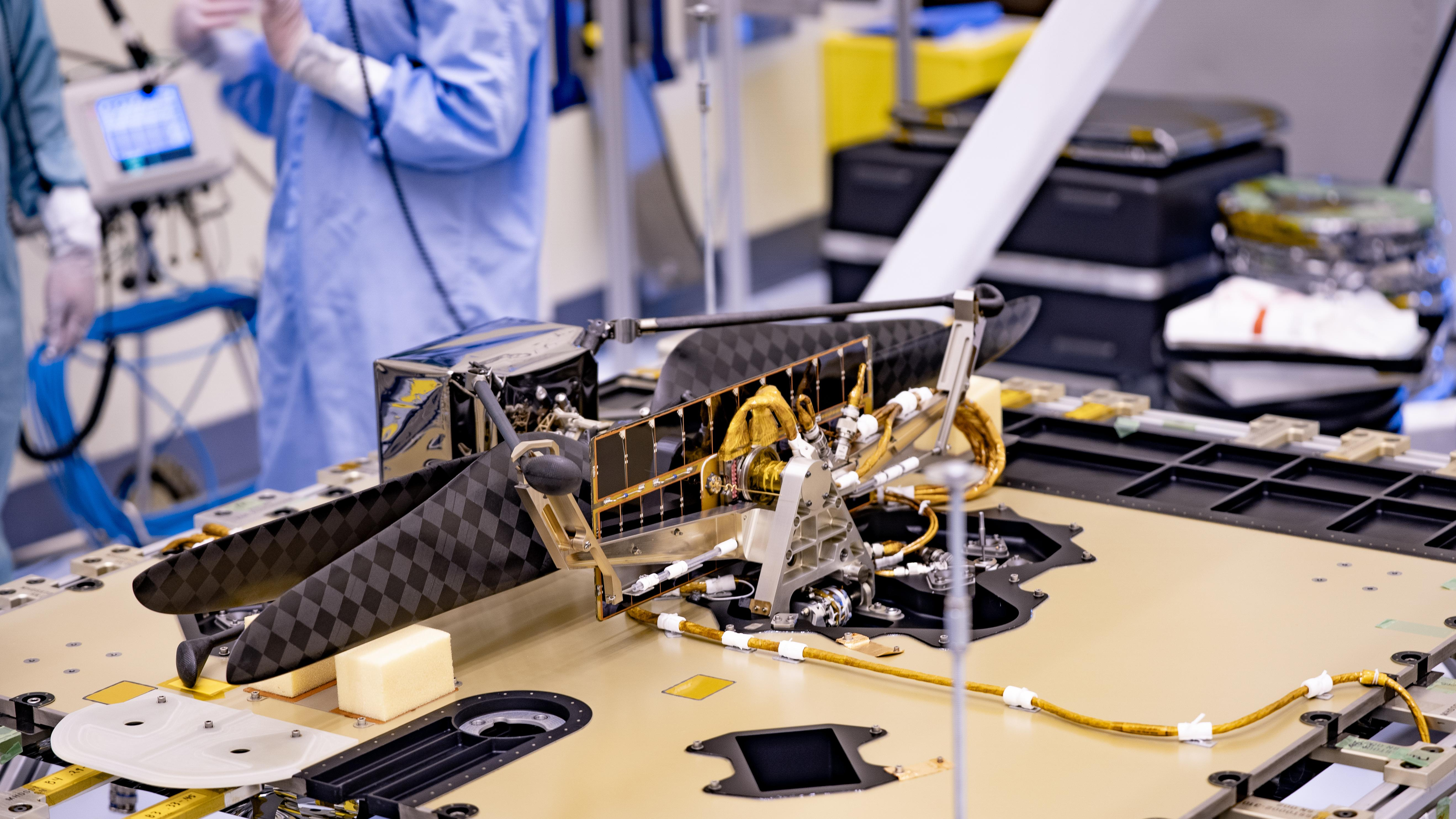 PIA23823: Mars Helicopter Aboard Perseverance The Mars Helicopter and its Mars Helicopter Delivery System were attached to the Perseverance Mars rover at Kennedy Space Center on April 6, 2020. A shell (not pictured) will protect the helicopter during the rover's descent to the surface of Jezero Crater on Feb. 18, 2021. The helicopter will be deployed about two-and-a-half months after Perseverance lands. For more information about the mission, go to